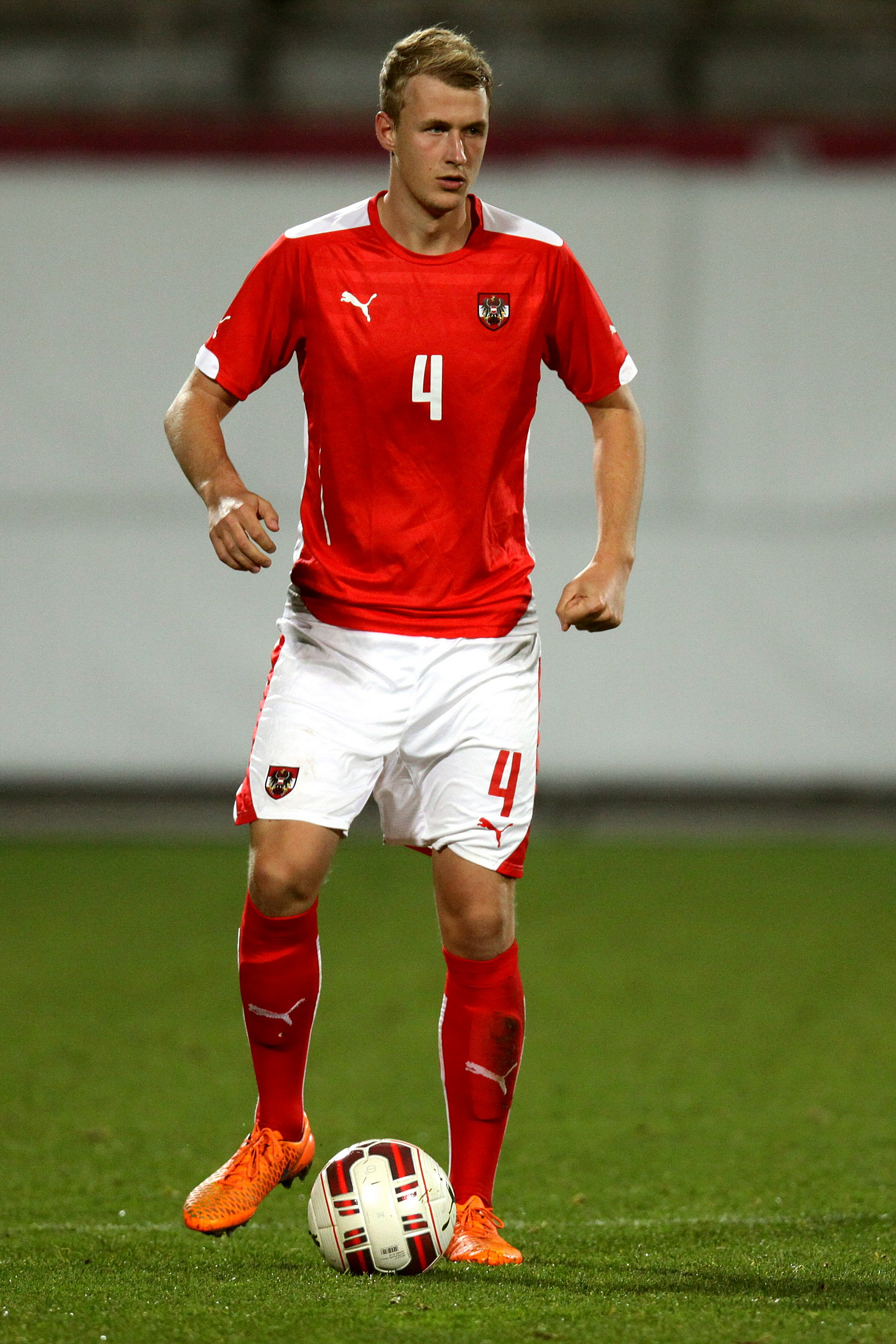 2017 UEFA European Under-21 Championship qualification – Austria U-21 (red shirts) vs. :en:Finland national under-21 football team |Finnland U-21 (blue shirts) 2-0 (0-0) – 2015-11-13 in Vienna, Austria Arena – The photo shows Lukas Gugganig.